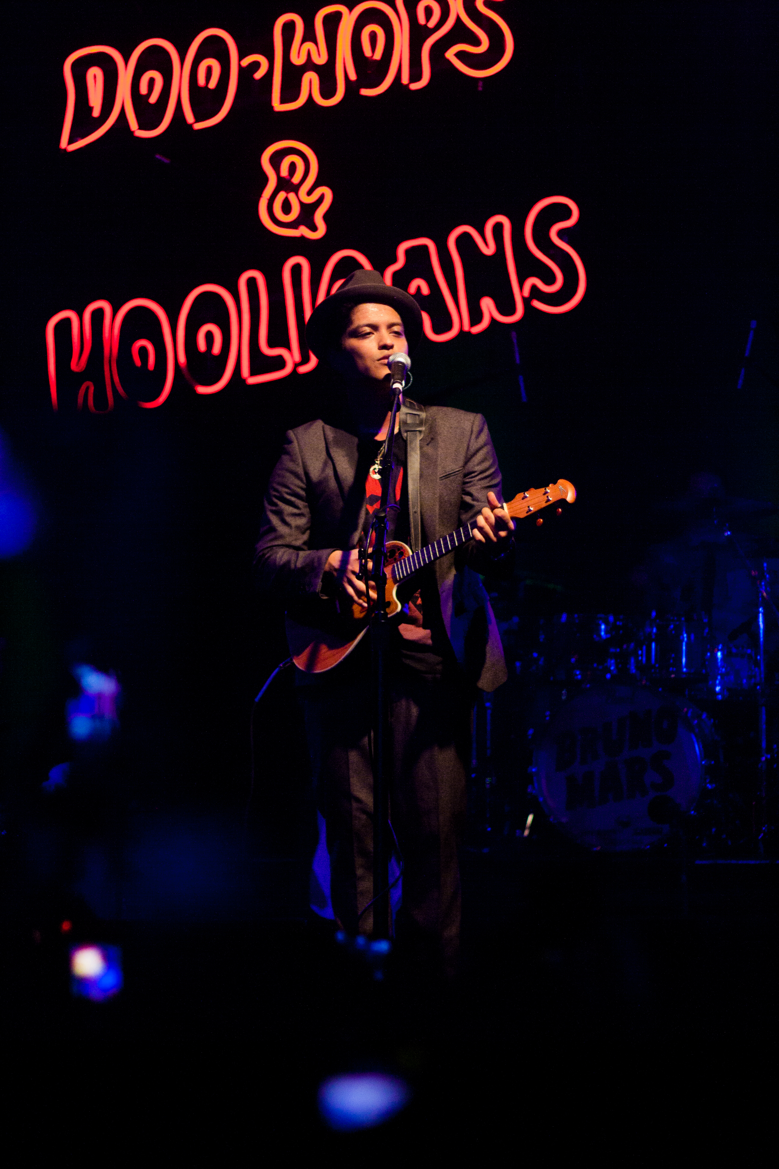 Warehouse Live